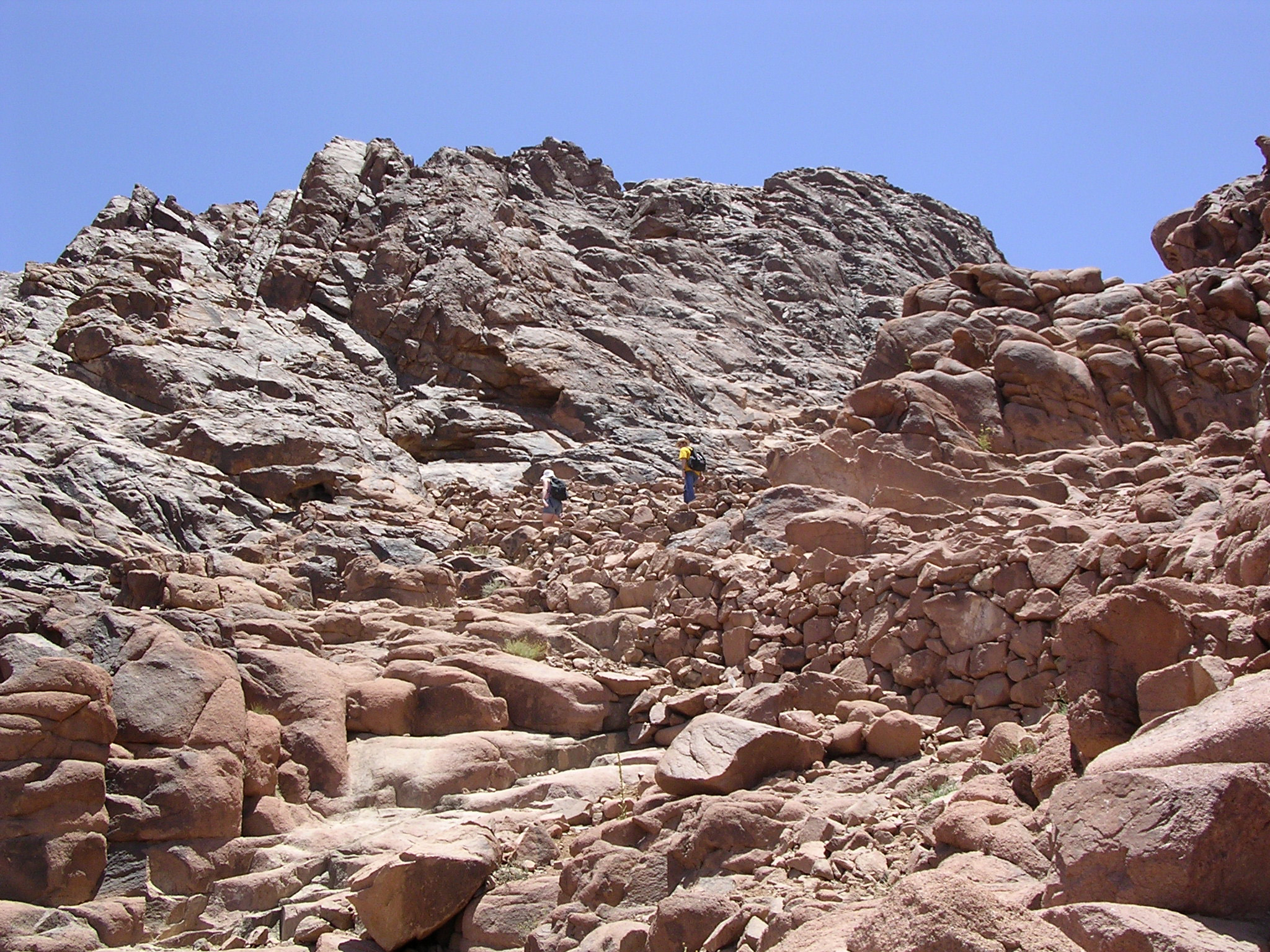 Climbing the trail near the summit of Mount Sinai.